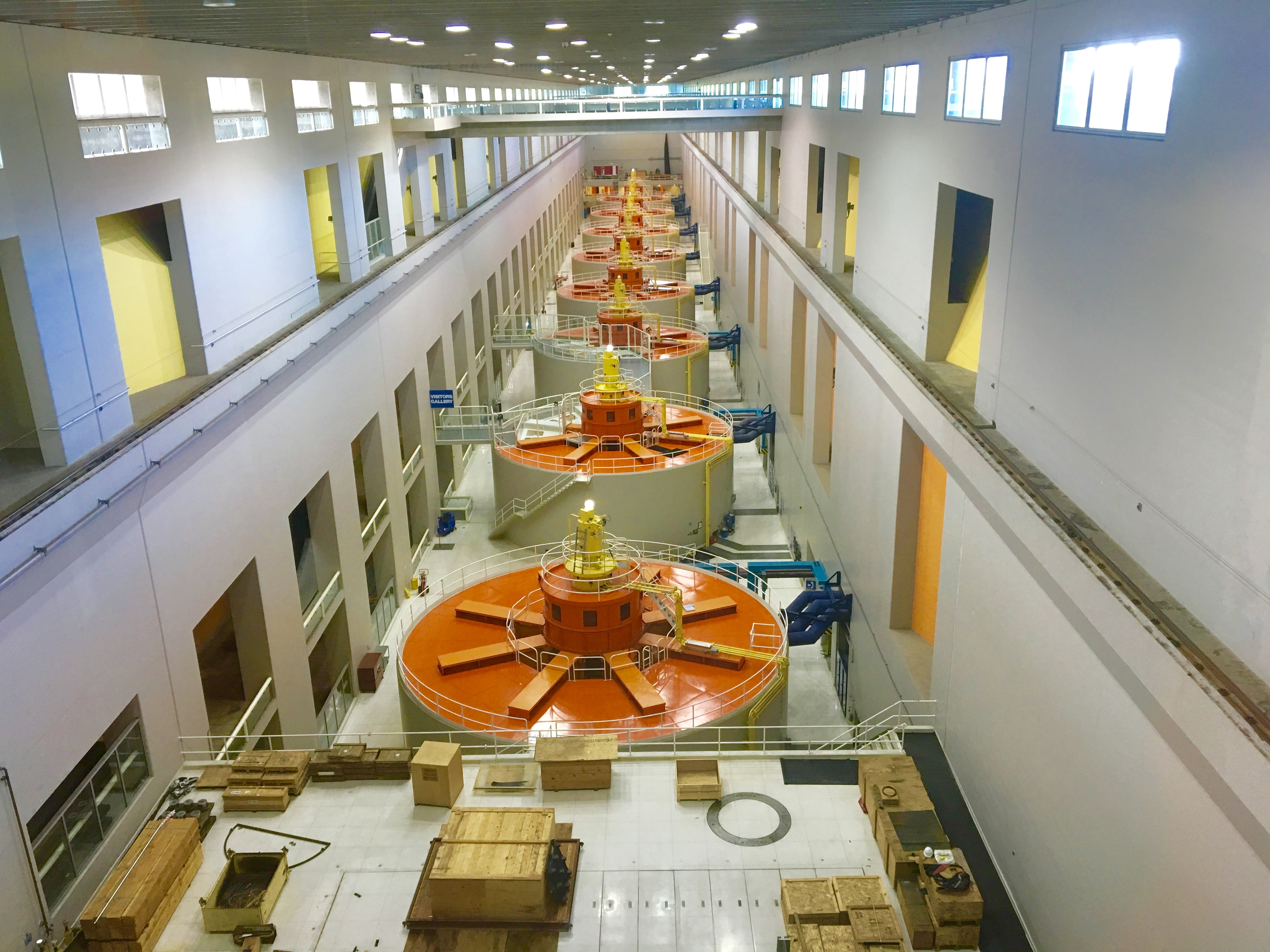 Second powerhouse of Bonneville Dam, in the Columbia River